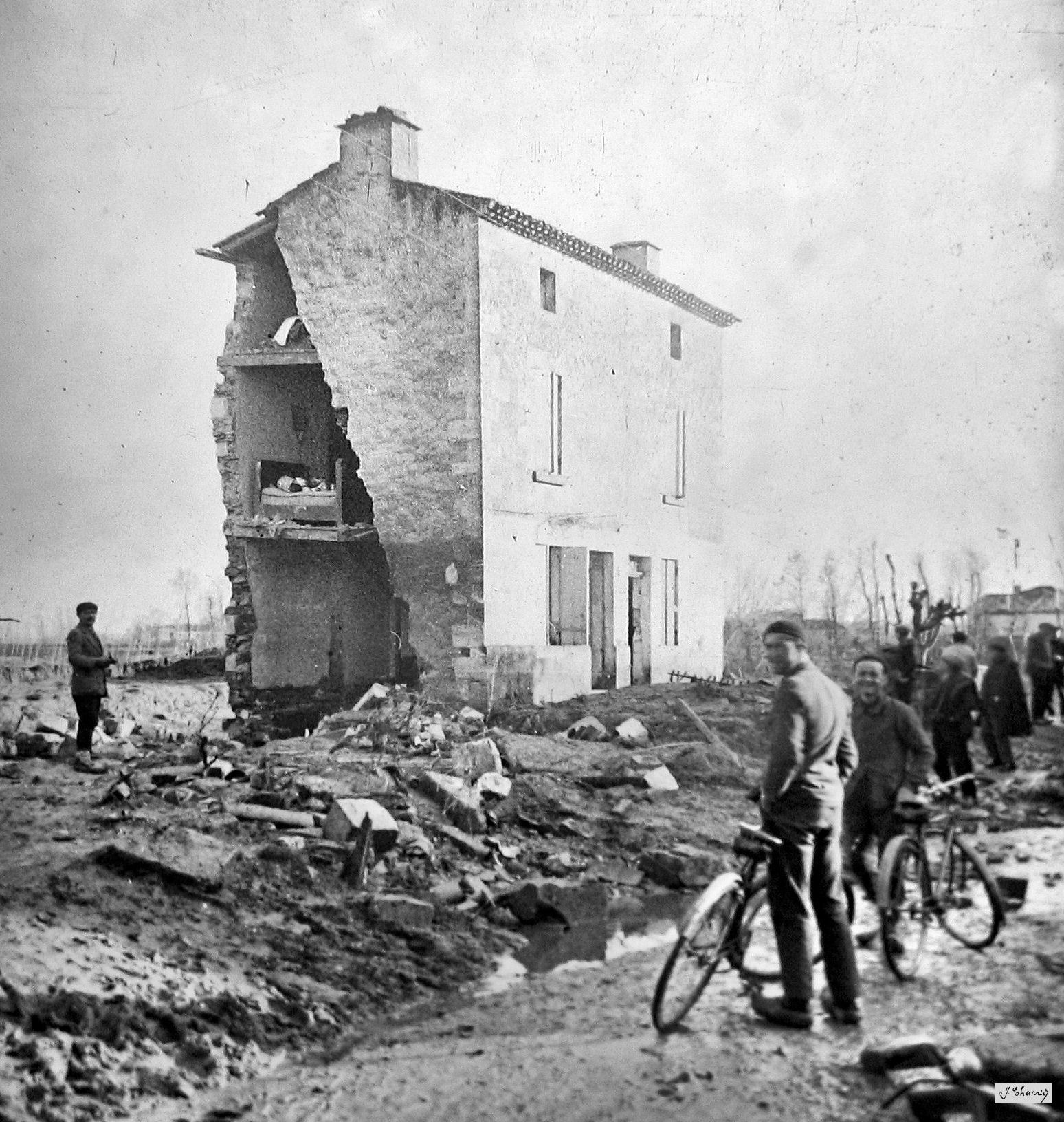 Couthures-sur-Garonne (Lot-et-Garonne, France) : A house destroyed by the flood of the Garonne River.